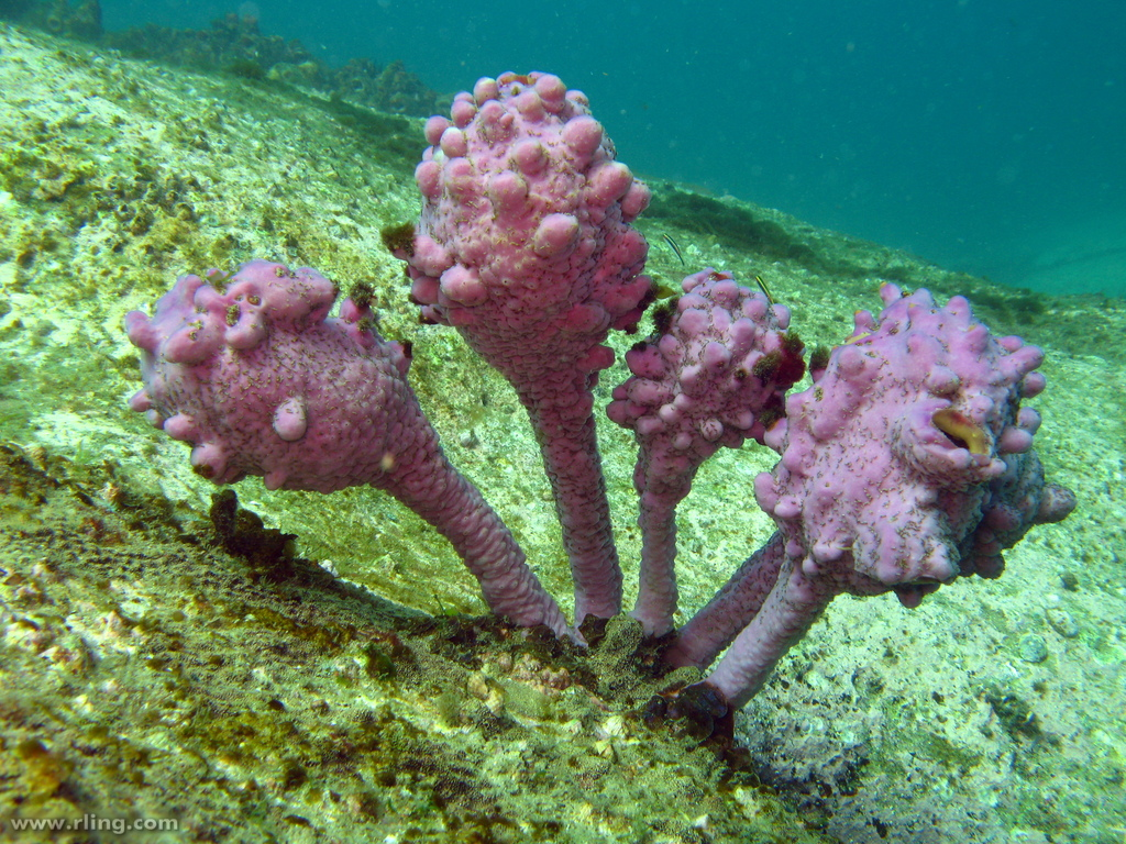 Sea Tulips (Pyura spinifera) get their vivid colours from a symbiotic relationship with a colourful sponge (Halisarca australiensis). Oak Park, Cronulla, NSW